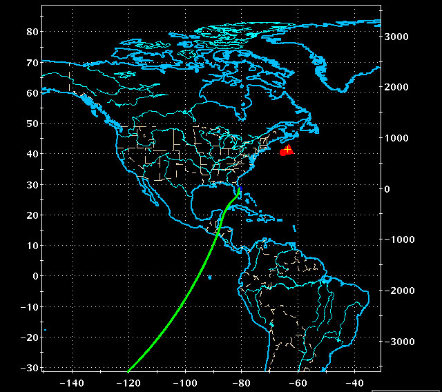 STS-135 Landing Ground Tracks Deorbit to Kennedy on Orbit 200 Long-range ground track